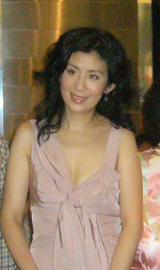 Sandra Ng at the preview of the film The Warlords at SF World Cinema, CentralWorld, Bangkok.